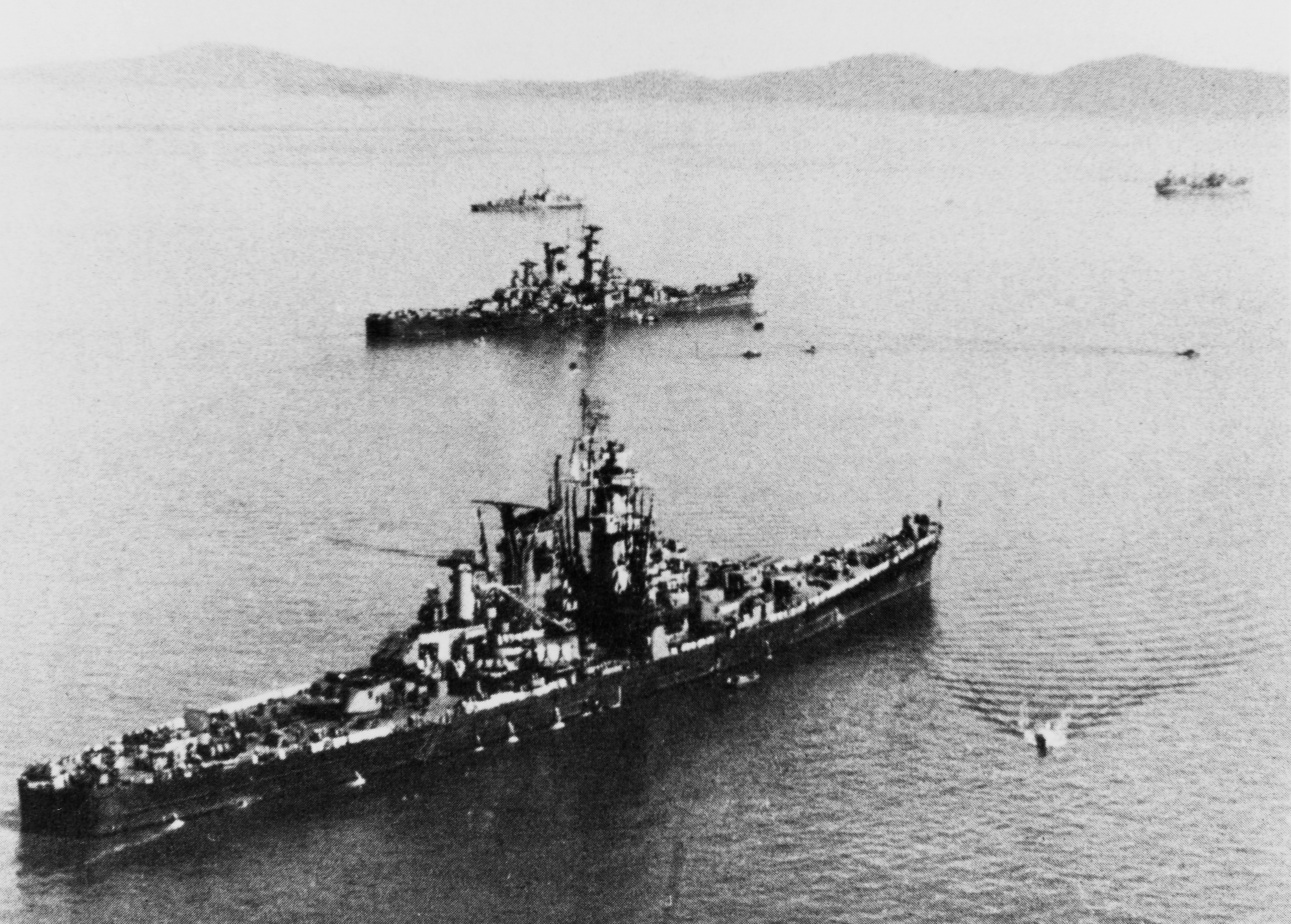 The U.S. Navy large cruisers USS Guam (CB-2) and USS Alaska (CB-1) at anchor off the coast of China in late August or early September 1945.